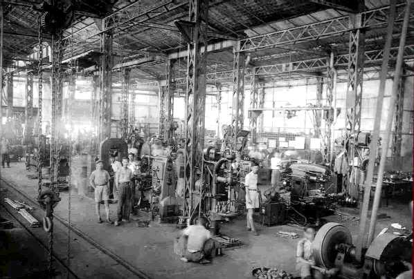 A shop at Gia Lam Workshop in 1935